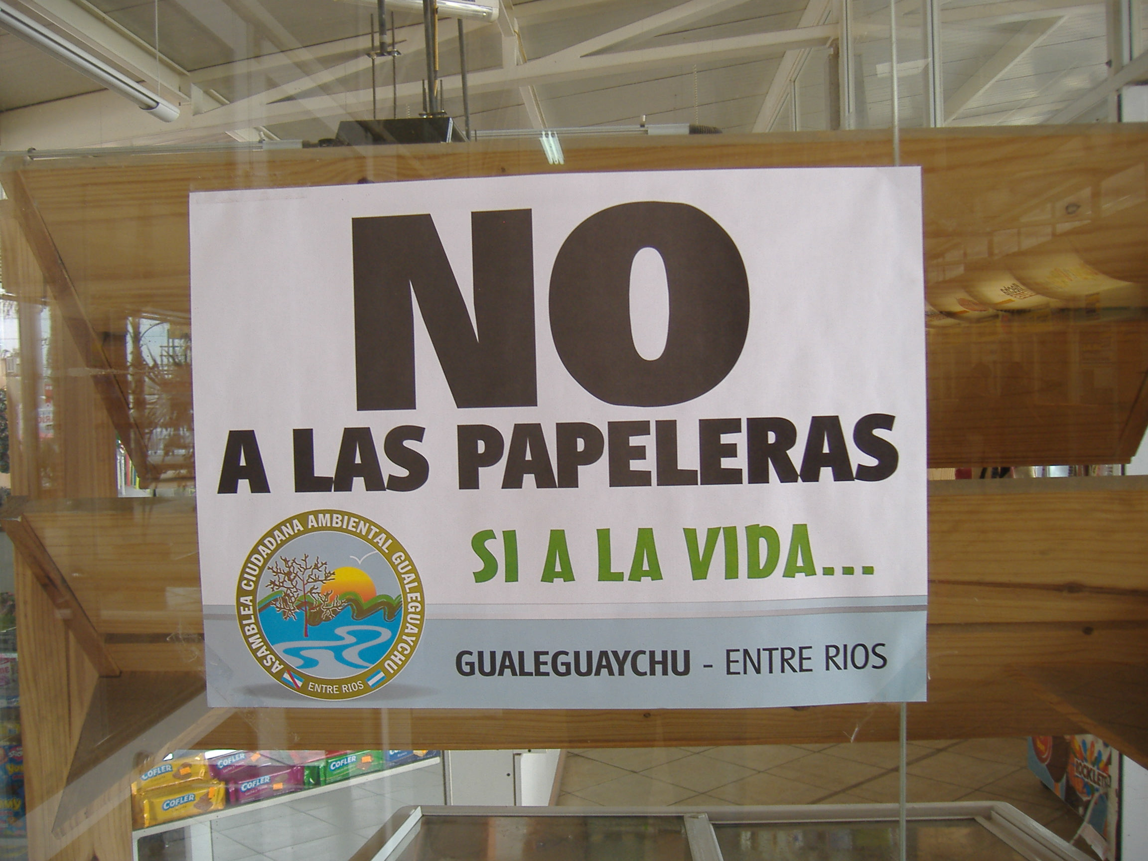 A sign posted in a shop in Gualeguaychú, Entre Ríos, Argentina, that reads NO A LAS PAPELERAS - SI A LA VIDA - "No to the paper mills, yes to life". See Cellulose plant conflict between Argentina and Uruguay.